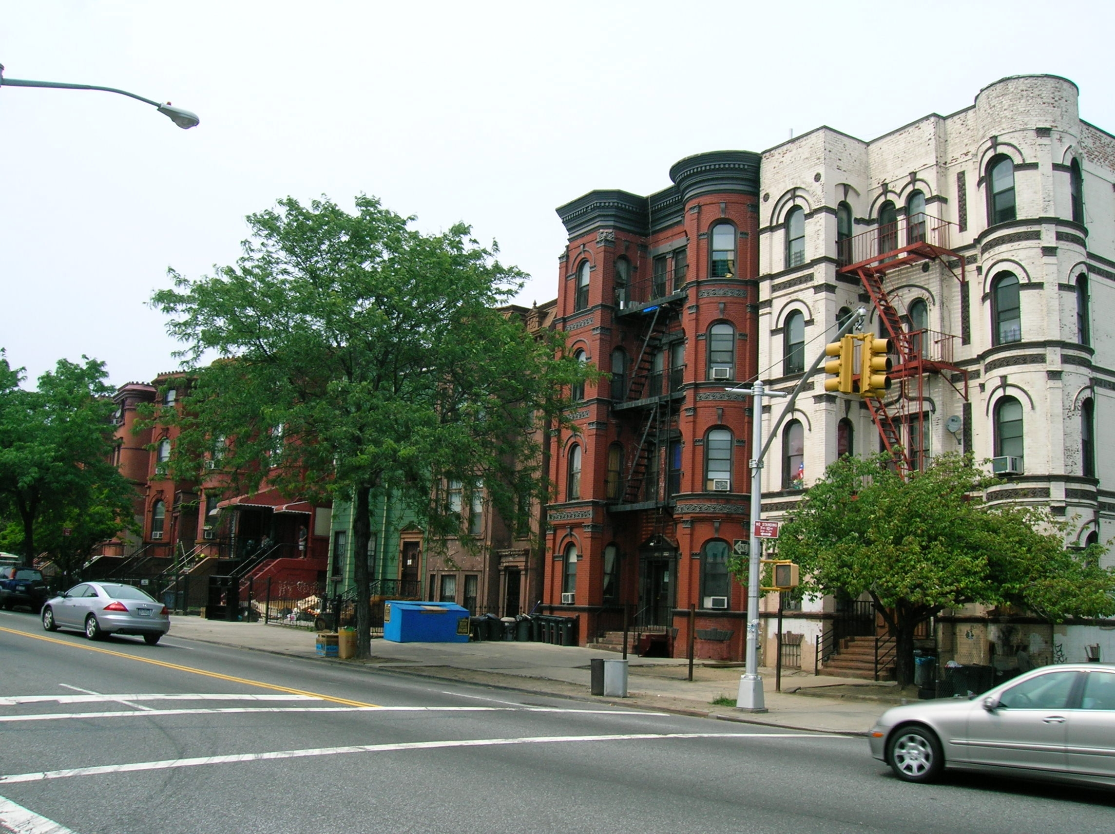 Brownstones and other types of apartment buildings on Bushwick Avenue near Suydam Street, in Bushwick, Brooklyn.